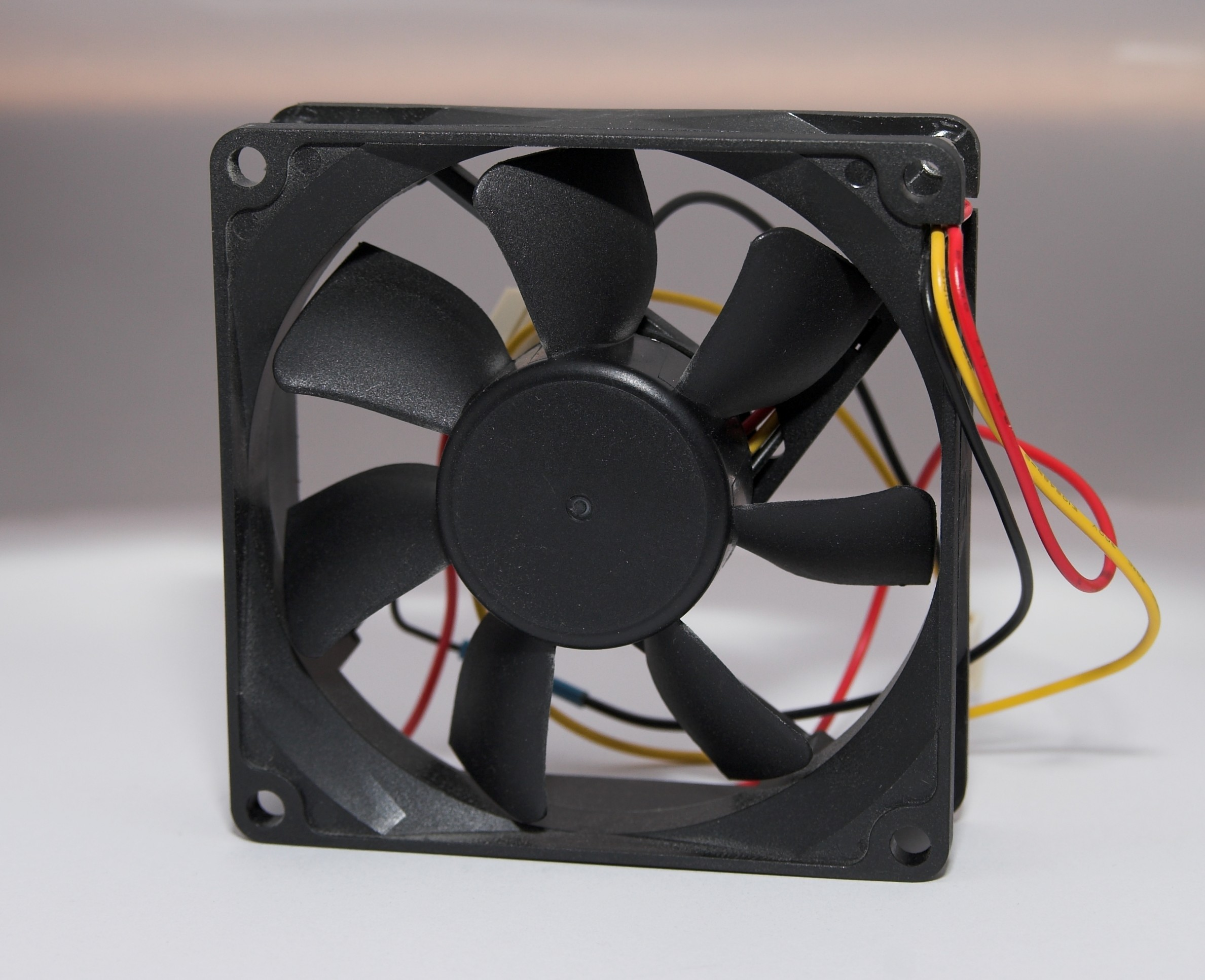 Case fan, 80mm sized, black plastic, used in PCs and other electronic equipment.